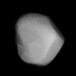 3D convex shape model of 1753 Mieke, computed using light curve inversion techniques. J. Hanuš, J. Ďurech, M. Brož, B. D. Warner (June 2011). "A study of asteroid pole-latitude distribution based on an extended set of shape models derived by the lightcurve inversion method". Astronomy and Astrophysics 530: A134. ISSN 0004-6361. arXiv